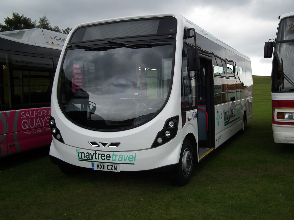 Manchester Trans Lancs Rally